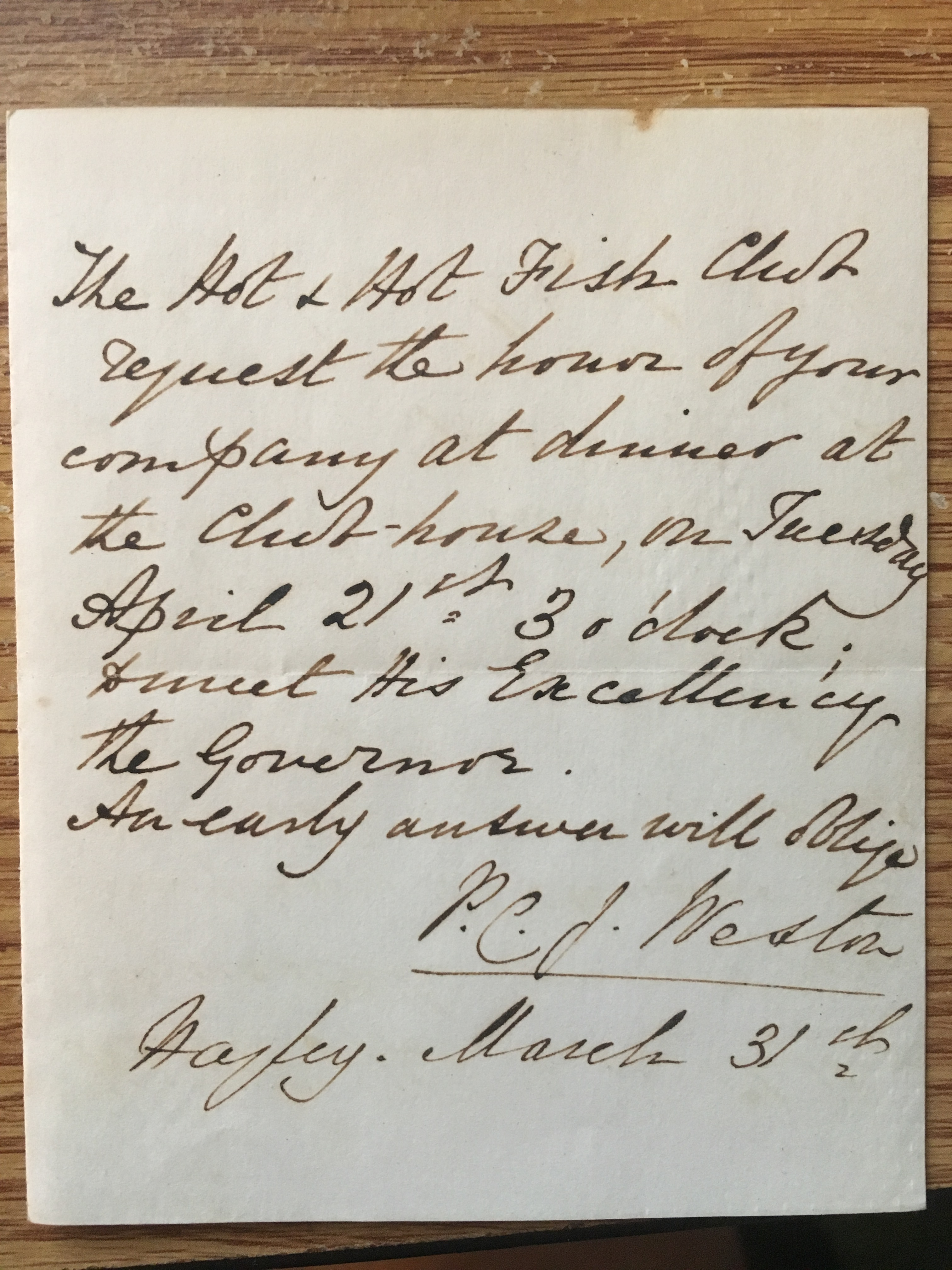 Invitation to the Hot and Hot Fish Club Dinner in honor of Governor Robert Francis Withers Allston